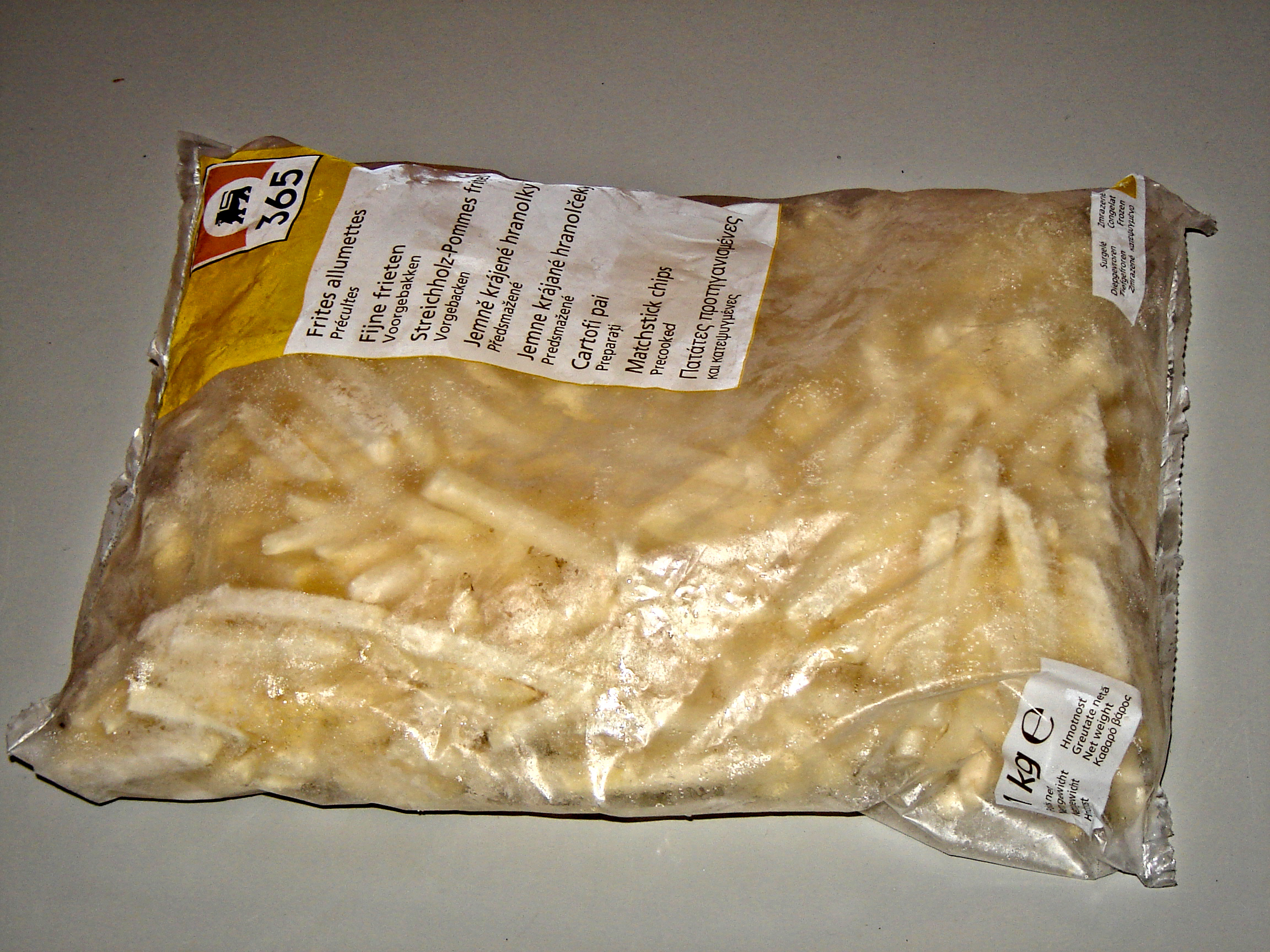 Frozen pre-fried French fries. (Own brand of Delhaize supermarkets)